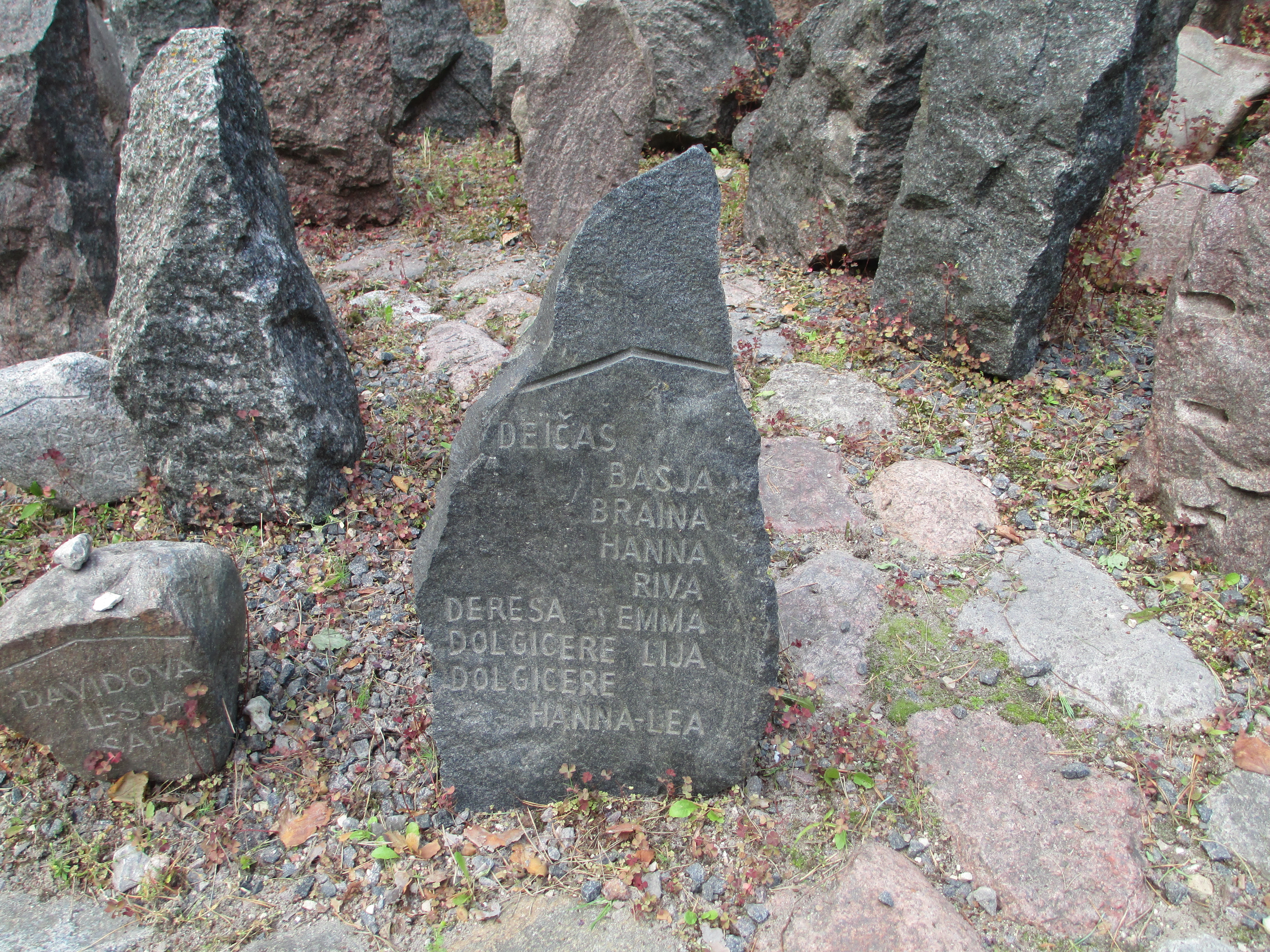 rumbula forest memorial